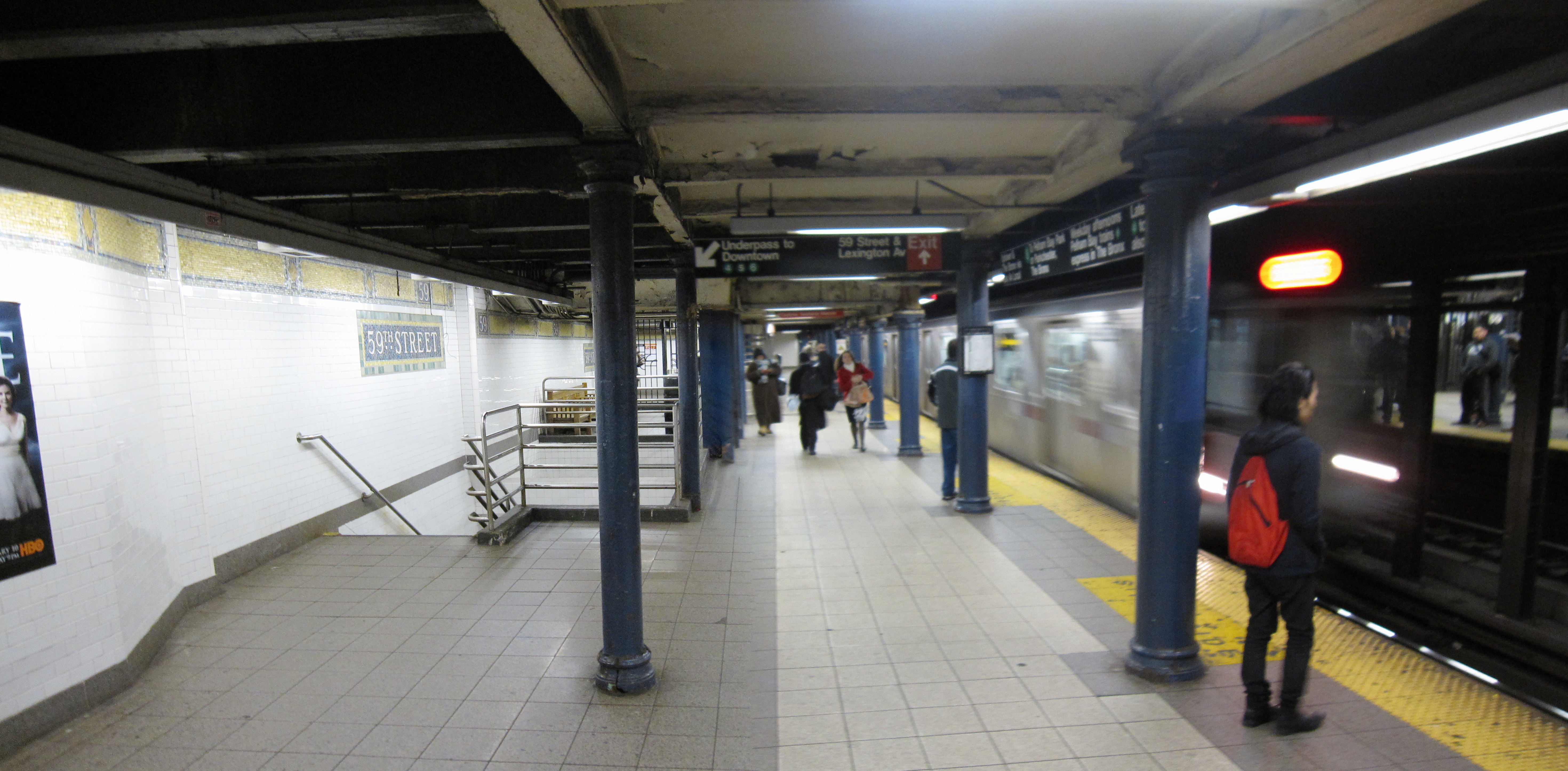 59th Street (IRT Lexington Avenue)